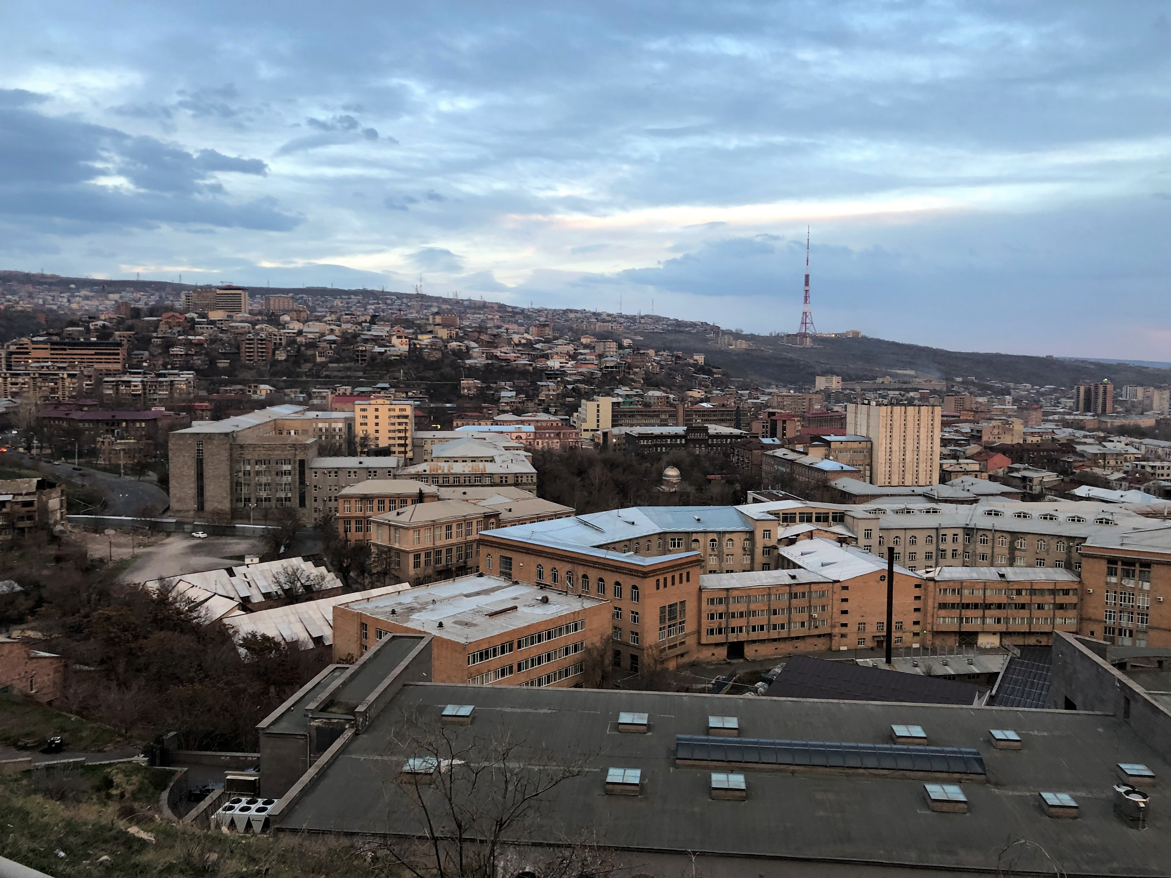 YSUAC